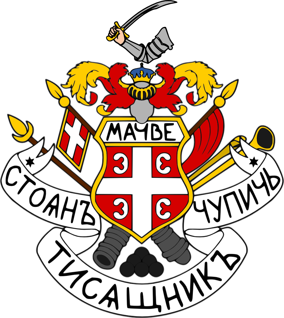 Coat of Arms of Stojan Cupic. From his seal.